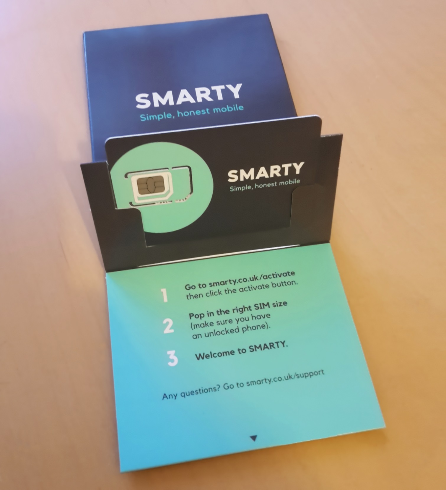 Package for SMARTY mobile network SIM card